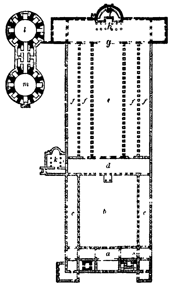 Illustration from 1911 Encyclopædia Britannica, article BASILICA. Fig. 10.—Ground-Plan of the original Basilica of St Peter's at Rome. a, Porch. b, Atrium. c, Cloisters. d, Narthex. e, Nave. f, f, Aisles, g, Bema. h, Altar, protected by a double screen. i, Bishop's throne in centre of the apse. k, Sacristy. l, Tomb of Honorius. m, Church of St Andrew.